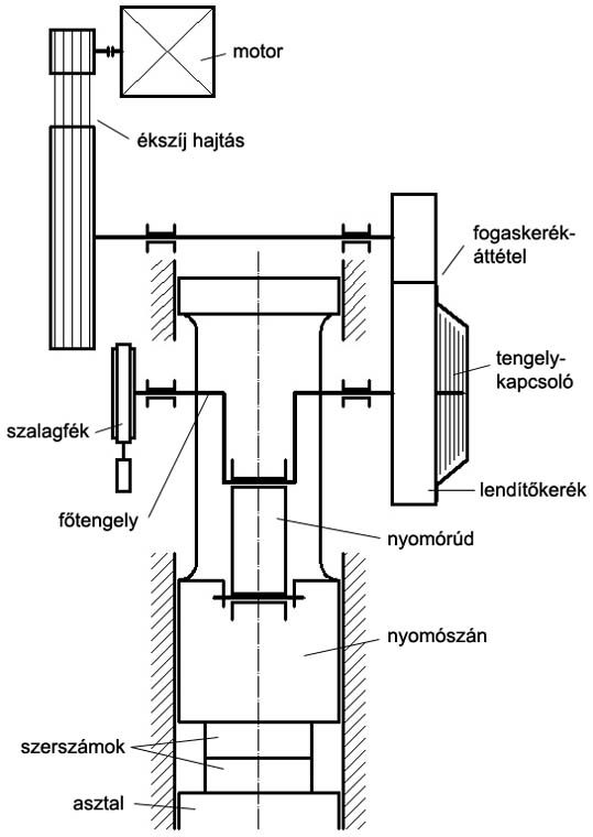 Principle of a cranced (maxima) press